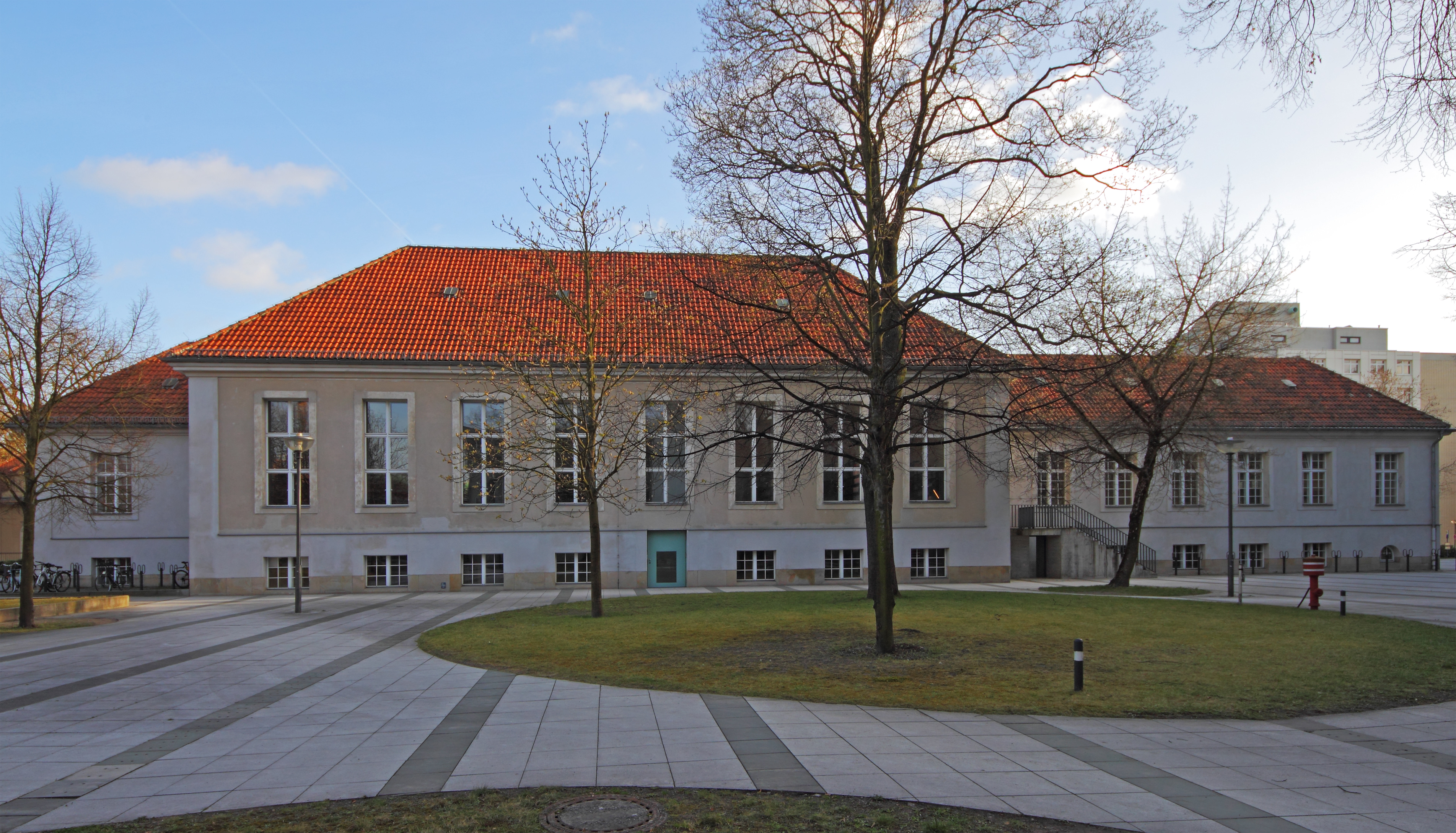 Berlin-Wedding, Virchow Hospital